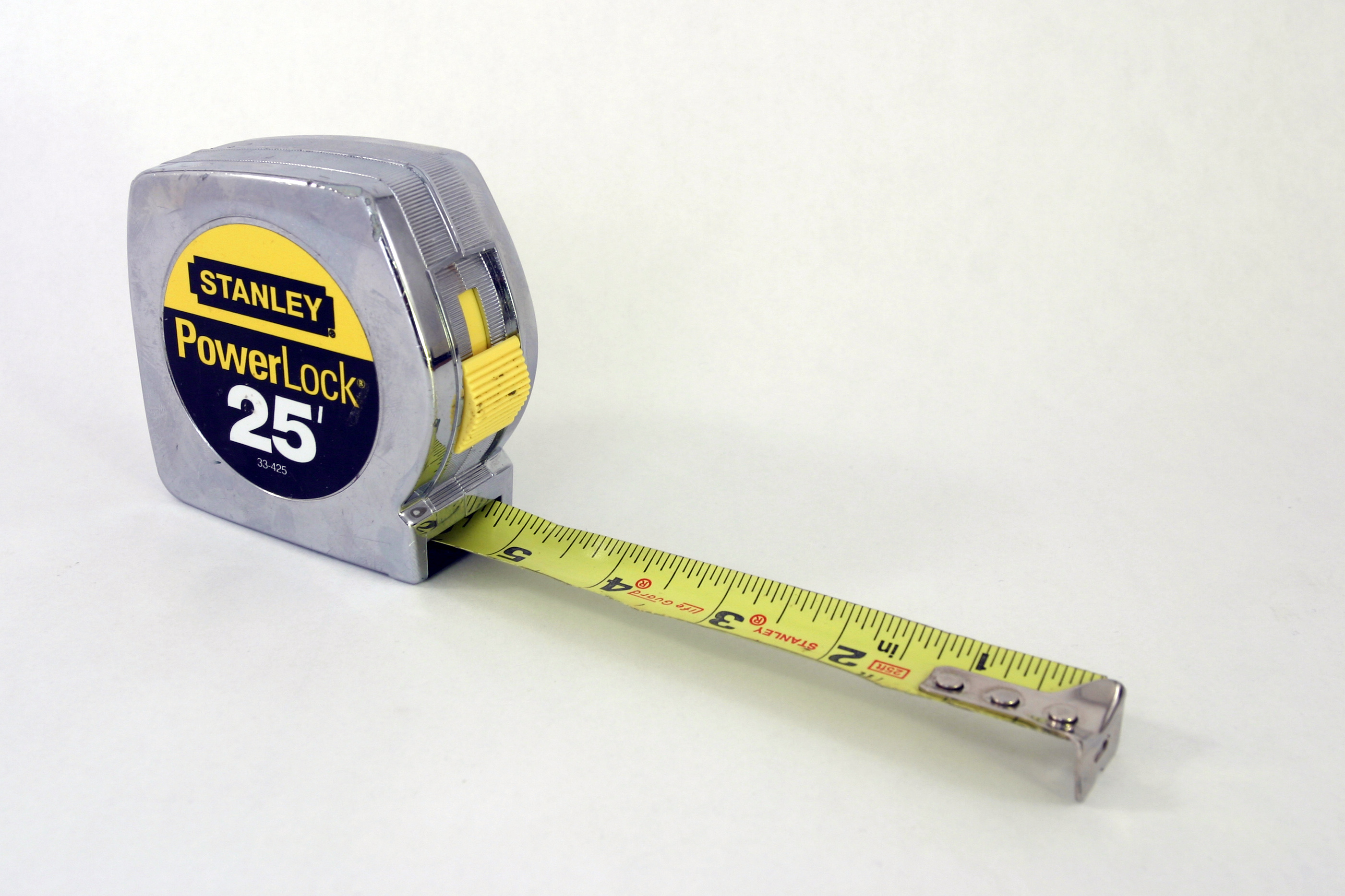 A Stanley PowerLock tape measure.